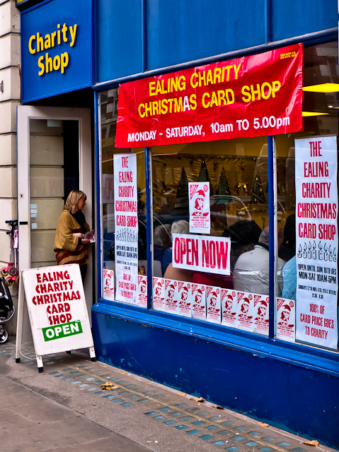 The 2011 Ealing Charity Christmas Card Shop, Bond Street, Ealing, London W5 5AA. Founded in 1985 it is run entirely by volunteers, with 100% of all sales going to charity.